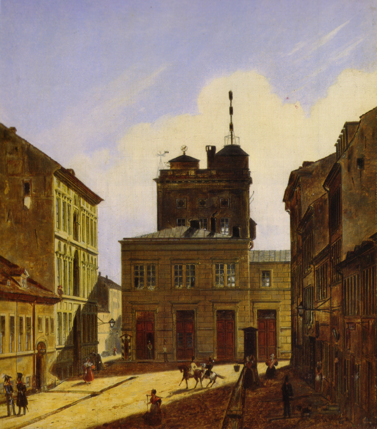 Station 1 of the Prussian optical telegraph, Berlin